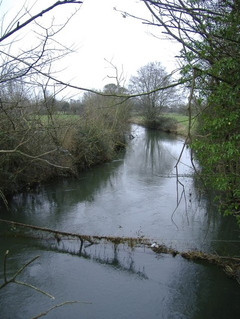 The Swill Brook A major tributary of the infant River Thames, south of Ashton Keynes.